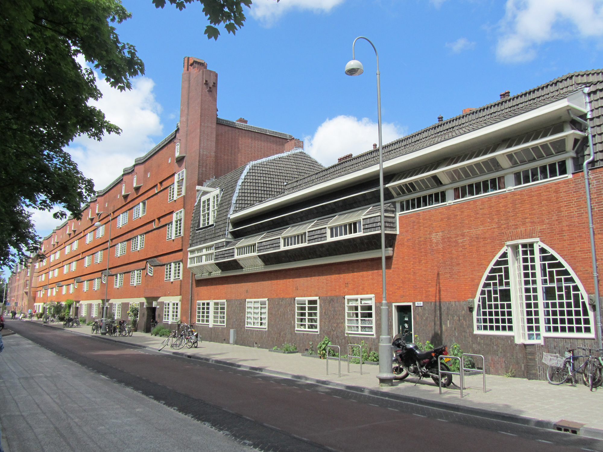 Apartment building Het Schip in Amsterdam, southern facade on Zaanstraat